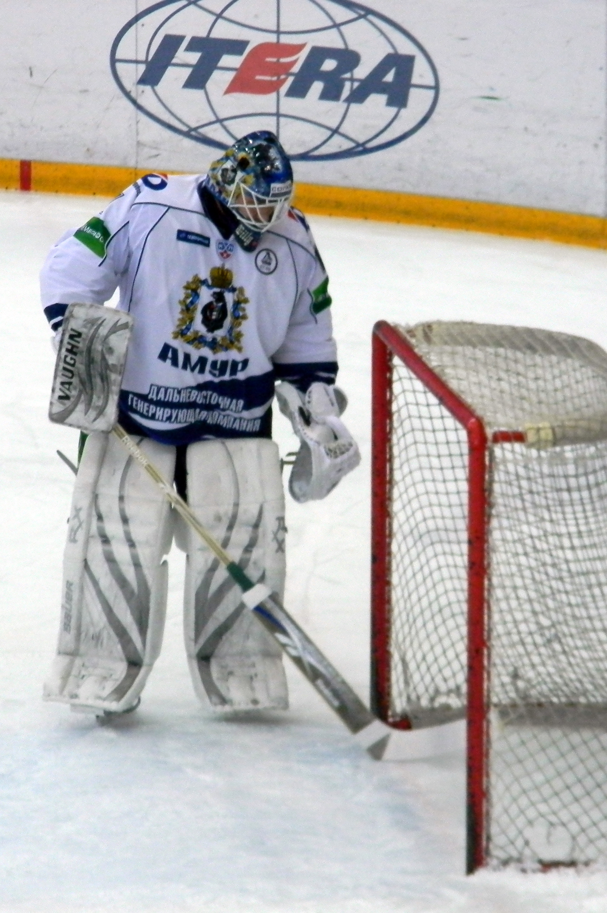 Ján Lašák, an ice hockey goalkeeper from Amur Khabarovsk